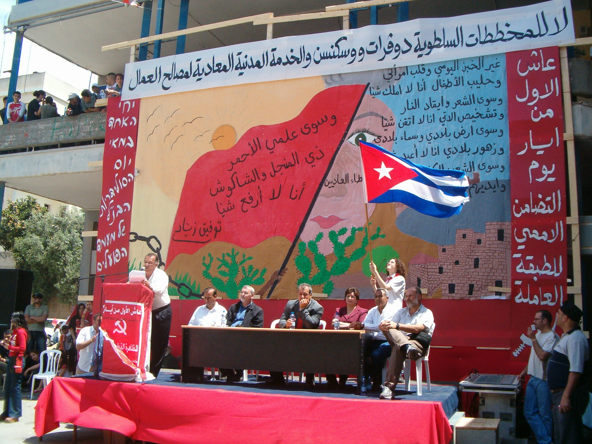 May Day celebration in Nazareth